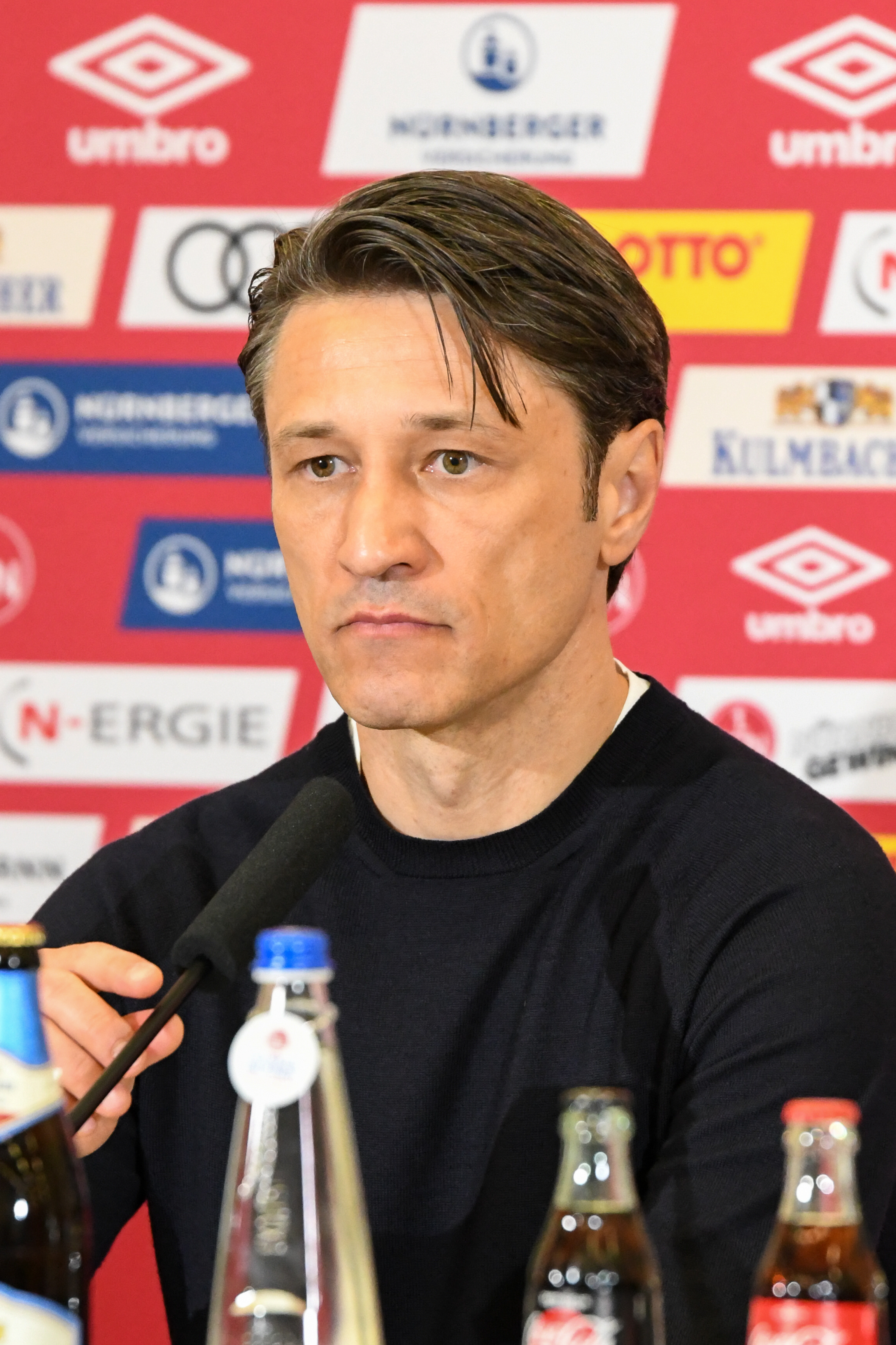 German Soccer League Season 2018/19, 31st match day 1. FC Nürnberg vs. 1. FC Bayern München. Picture shows: Niko Kovač of Munich